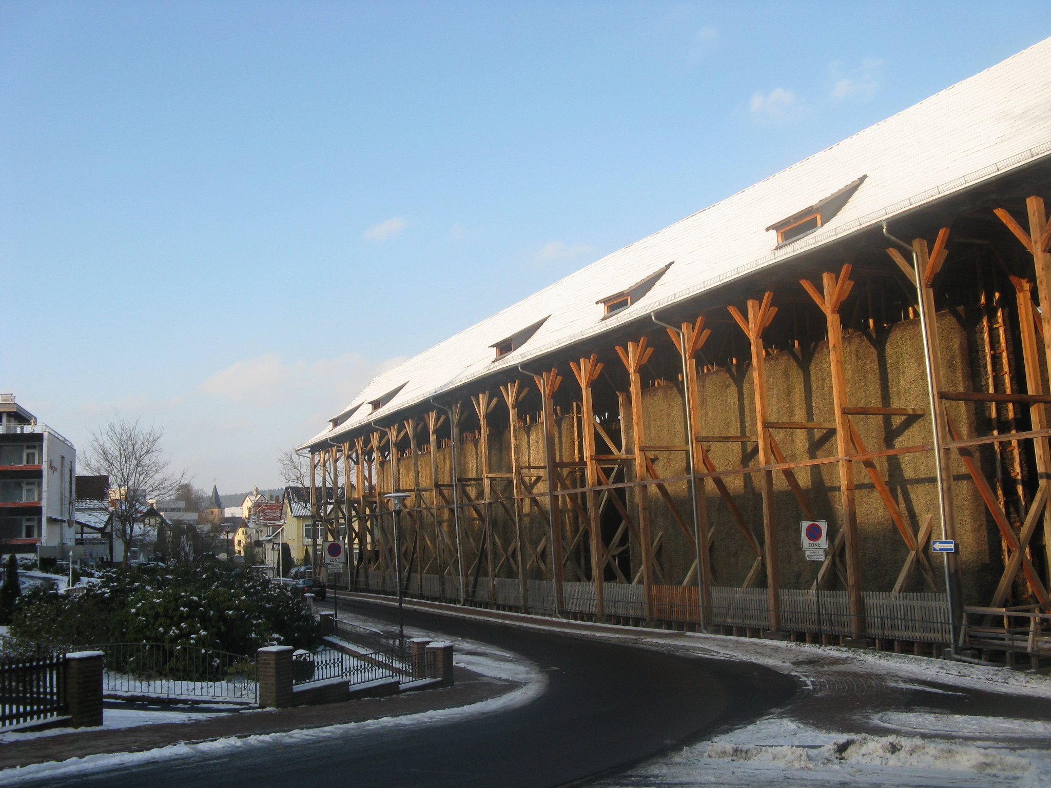 Bad Orb/Germany, graduation tower